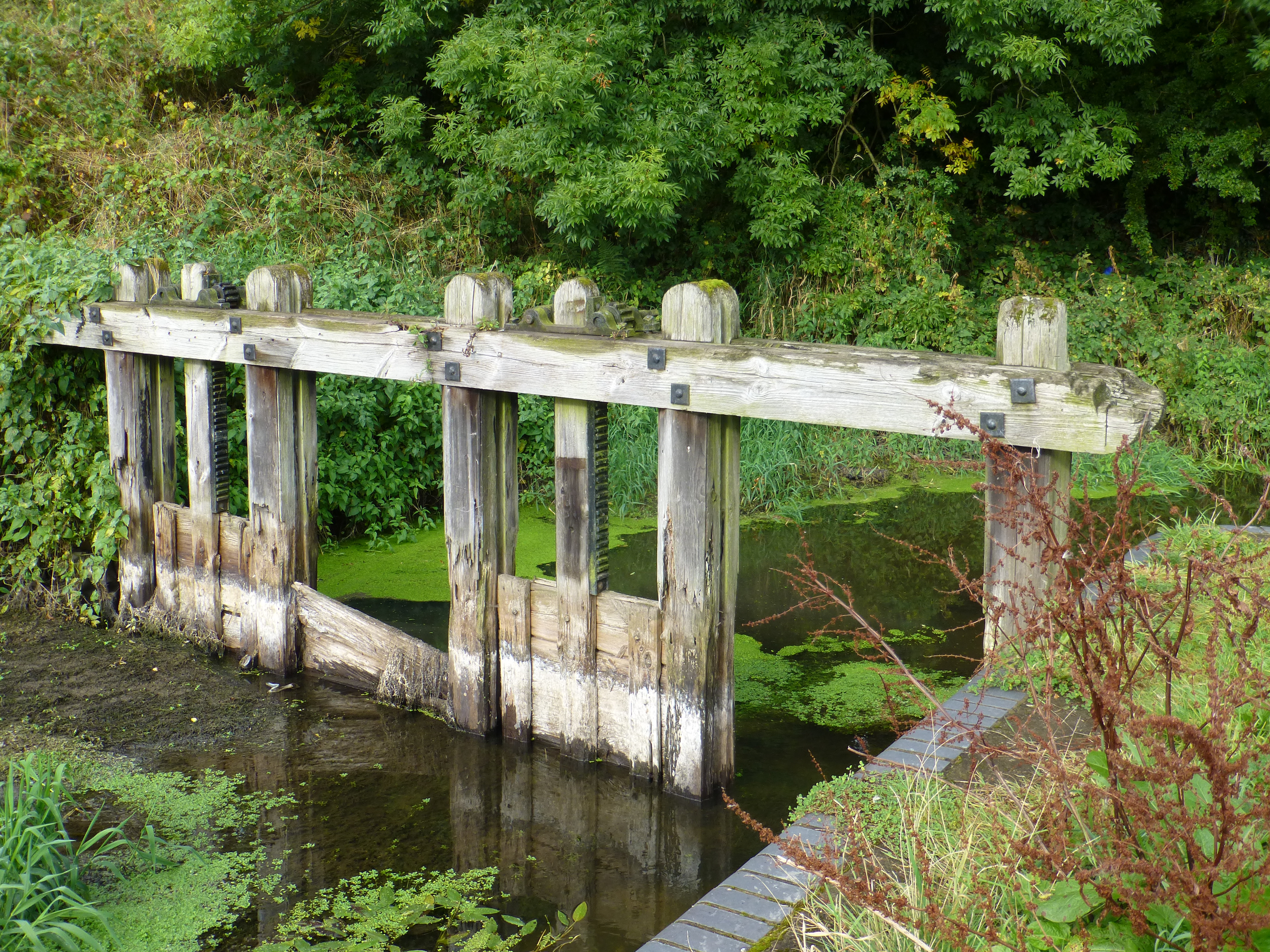 Hilden , Co. Antrim , Ireland September , 2014 Drought Canal